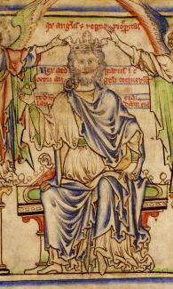 Edgar, King of England. (Cambridge University Library, Ee.3.59: fol. 3v)